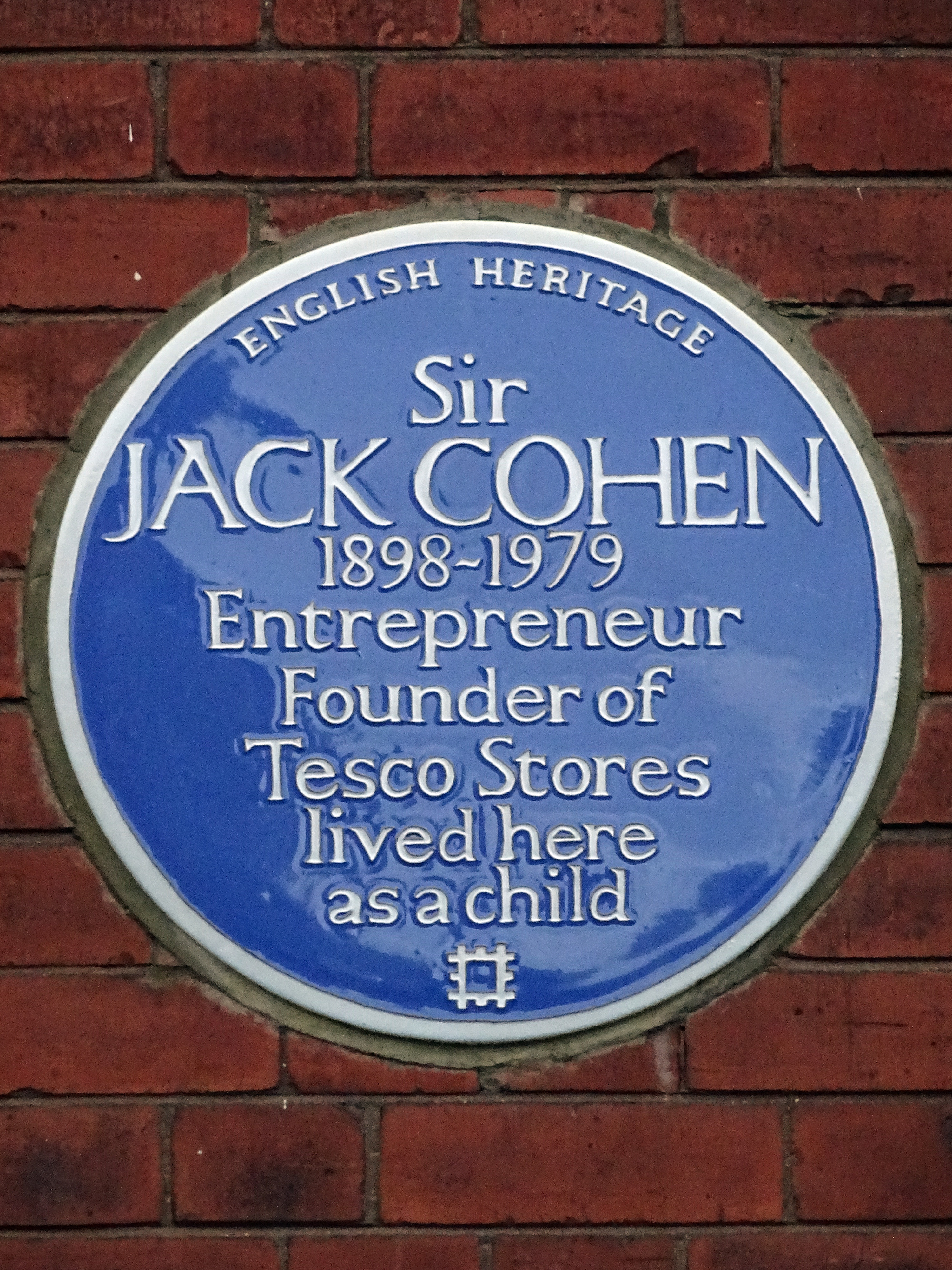 Blue plaque erected in 2009 by English Heritage at 91 Ashfield Street, Whitechapel, London E1 2HA, London Borough of Tower Hamlets